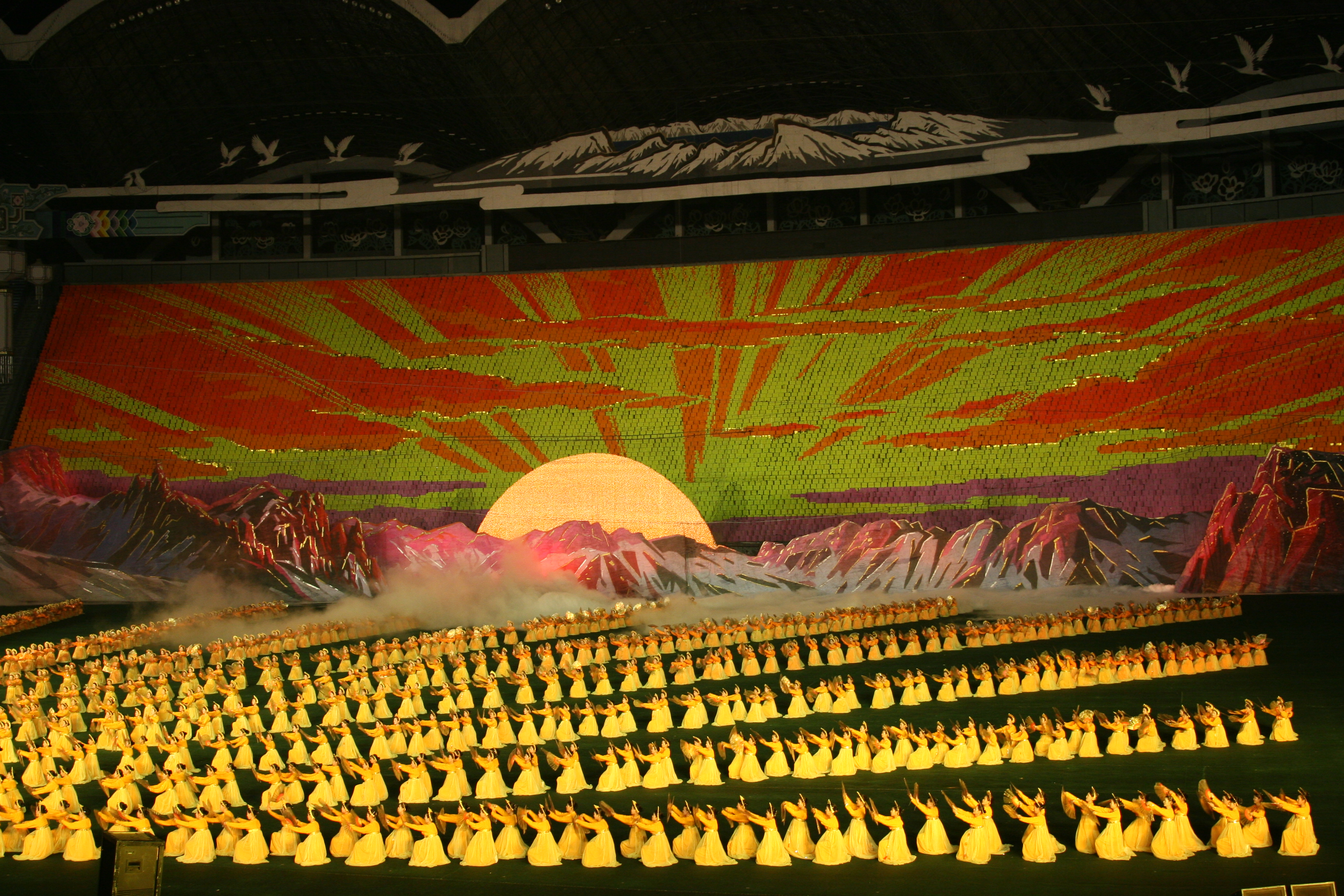 Mass Games